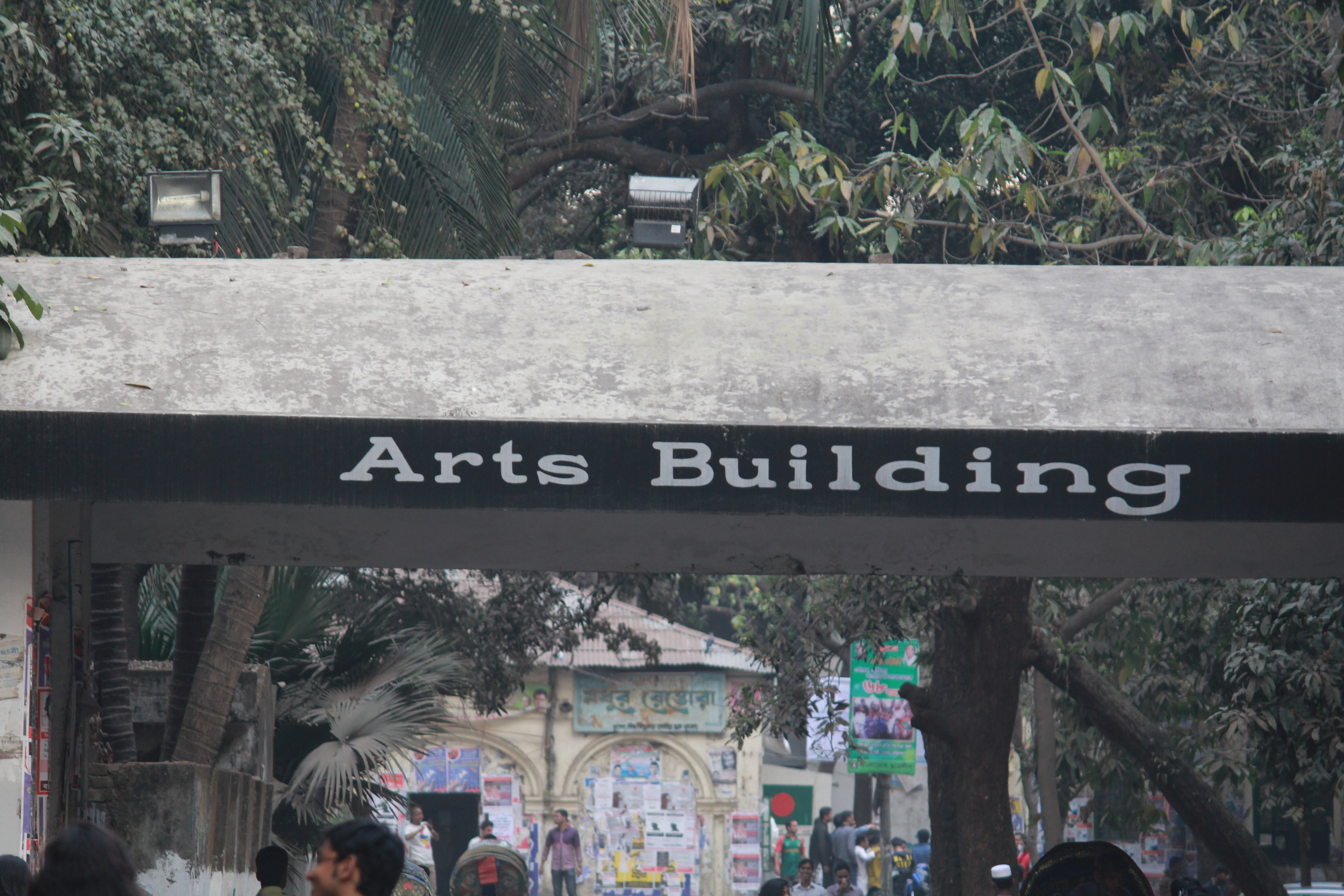 Arts Building of University of Dhaka